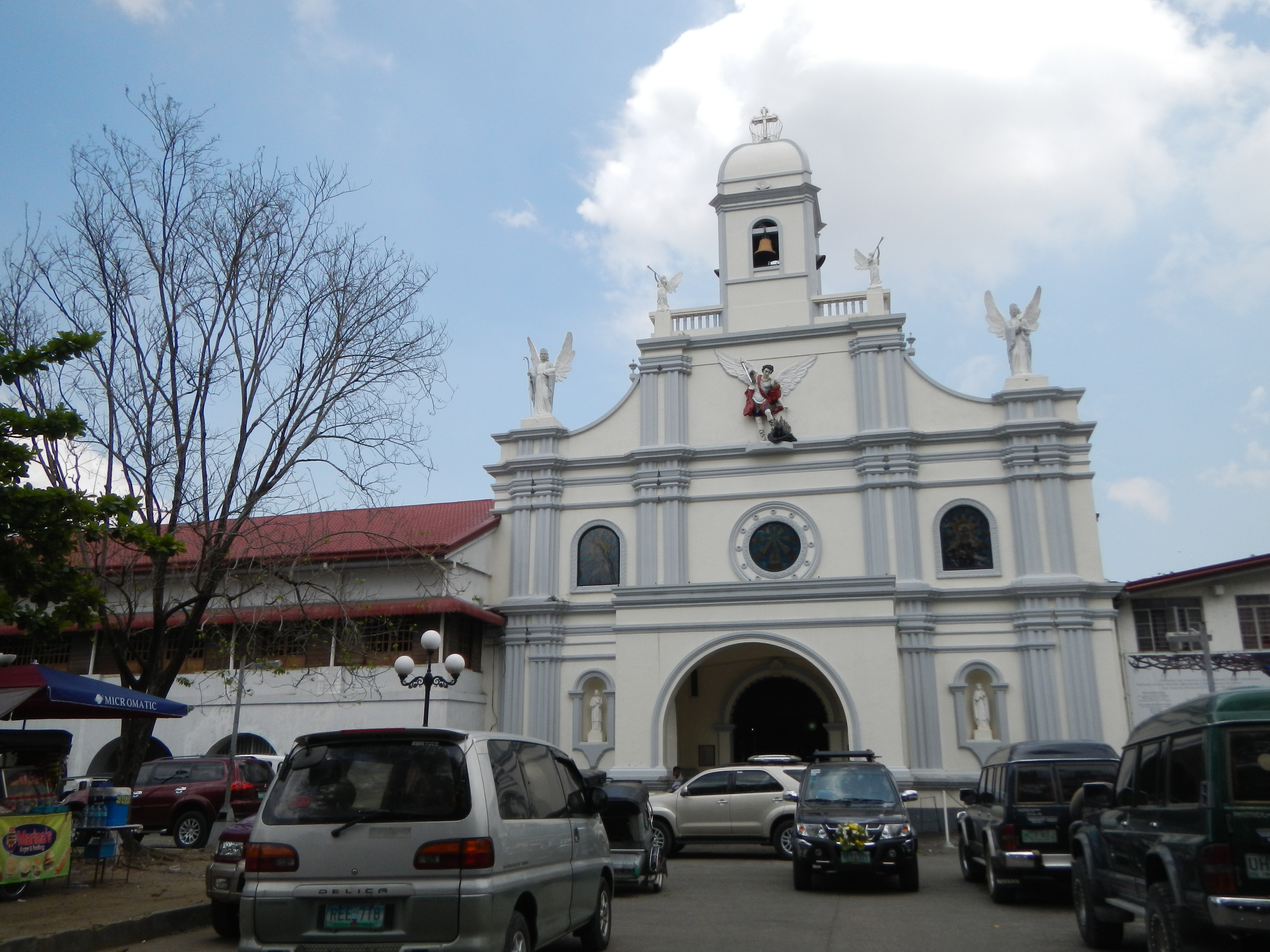 Saint Michael the Archangel Parish Church in San Miguel, Bulacan in a wedding ceremony, Victor st. cor. Libertad st.